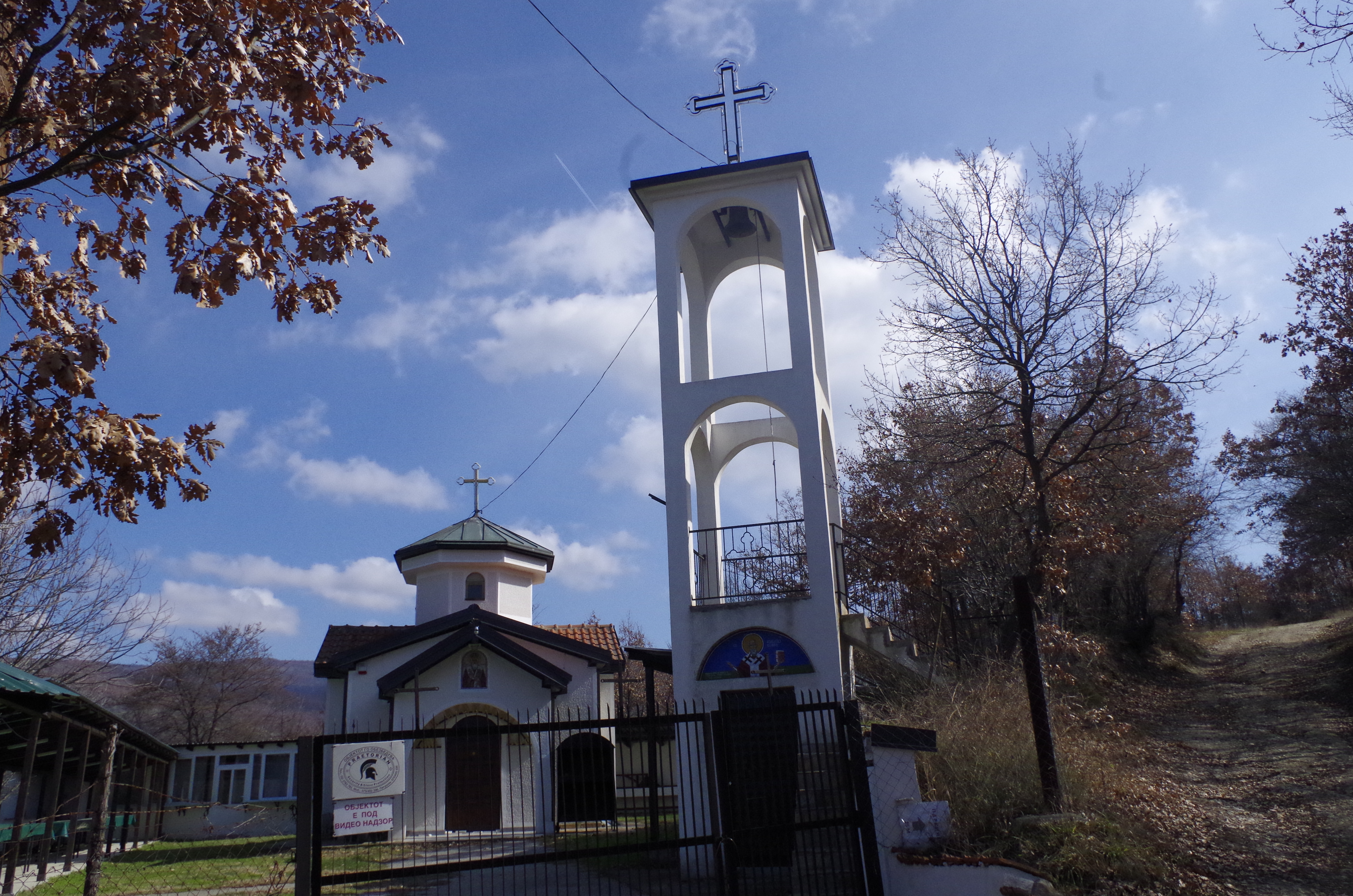 The church in Badar, Macedonia